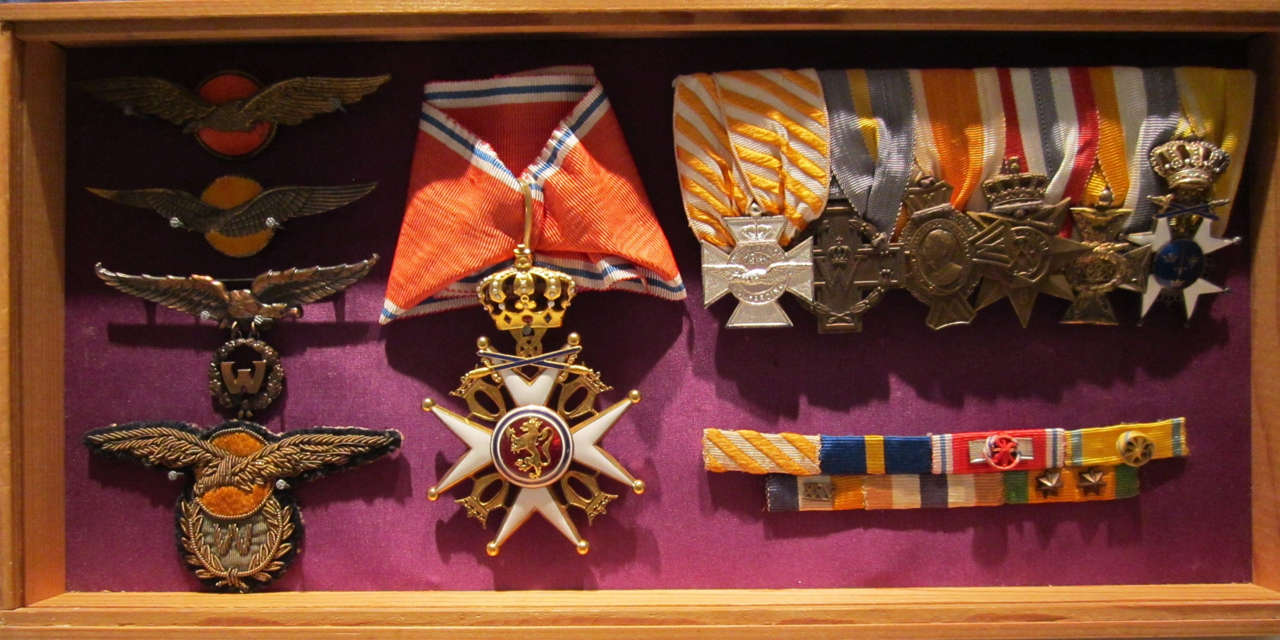 Bodo Sandberg's Military and Knight's Honors